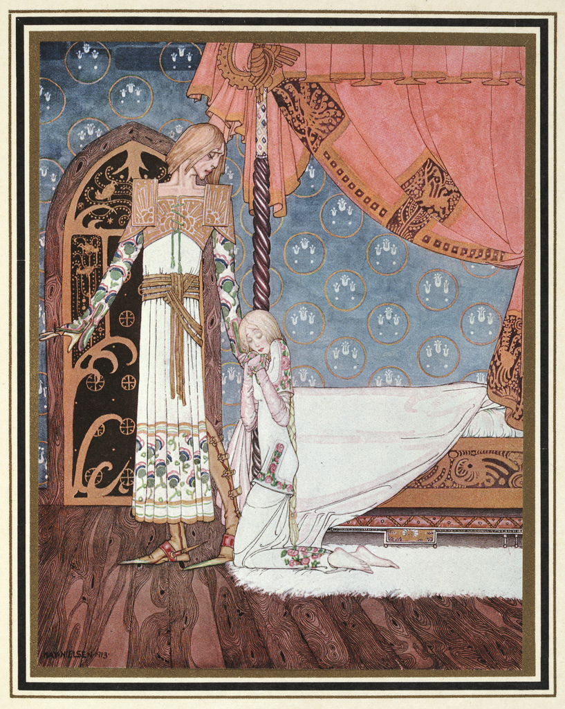 ‘ “Tell me the way, then,” she said, “and I’ll search you out” ’ Illustration by Kay Nielsen in East of the sun and west of the moon (1914). In the early twentieth century several English publishers issued a series of collector’s editions of children’s literature. These gift books, specially bound in gold-tooled vellum, were elaborately illustrated with coloured plates by the best illustrators of the time such as Arthur Rackham, Edmund Dulac, Hugh Thomson, and Heath Robinson. One of the most stunning is East of the sun and west of the moon illustrated by the Danish illustrator, Kay Nielsen. Nielsen (1886-1957) was born in Denmark and studied art in Paris. He was influenced by the styles of Aubrey Beardsley, Edward Burne-Jones and the influx of Japanese art that was spreading to the West at this time. East of the sun was his second book and is considered to be his masterpiece and one of the most beautiful illustrated children’s books ever produced. Nielsen’s burgeoning career was interrupted by World War I, and never really recovered. His publisher, Hodder & Stoughton tried unsuccessfully to reinvigorate the market for gift books after the war and in 1924 and 1925 issued two further fairy tales books illustrated by Nielsen, but these were on a more modest scale and the demand for extravagant books of this type had gone. Nielsen fell into obscurity and died in poverty in 1957.